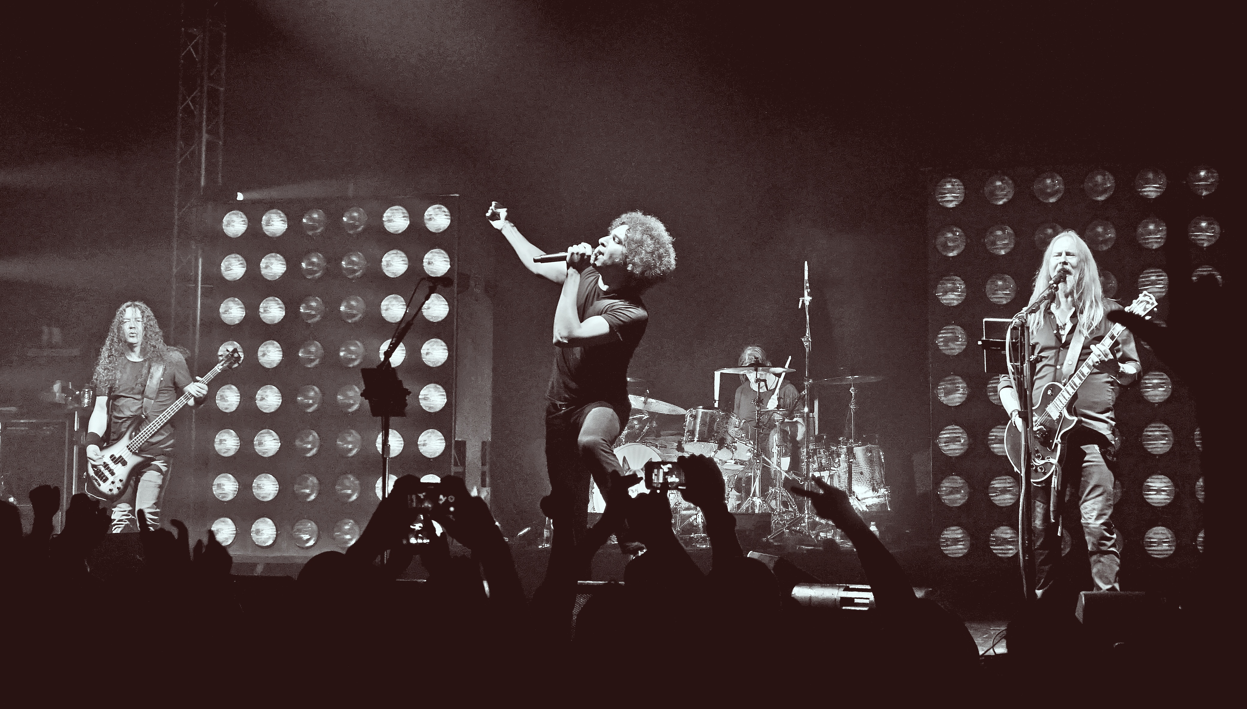 Alice in Chains performing in Leeds, England (16/08/2018)